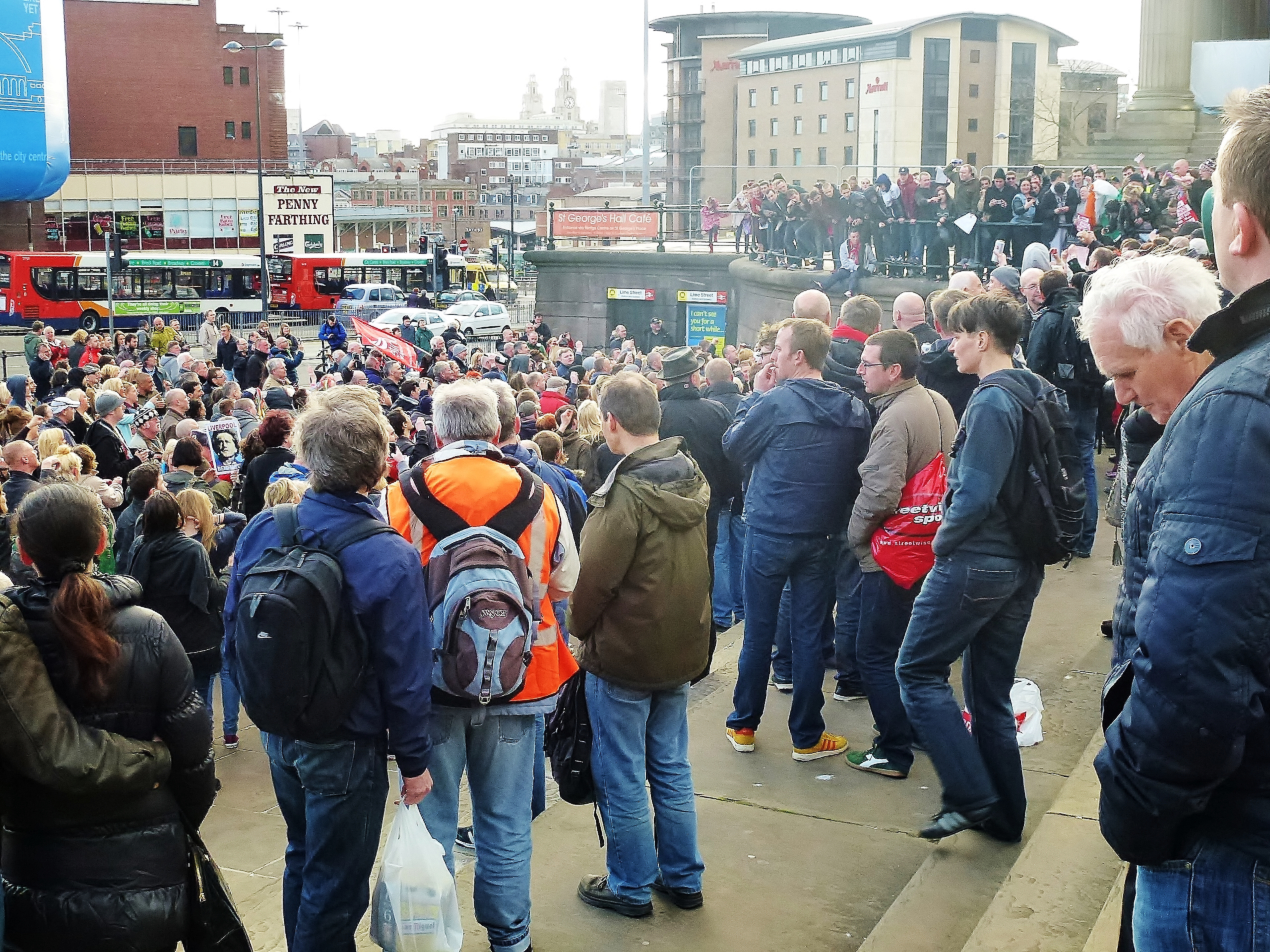 Demostration in Liverpool during at the same time as Margaret Thatchers funeral